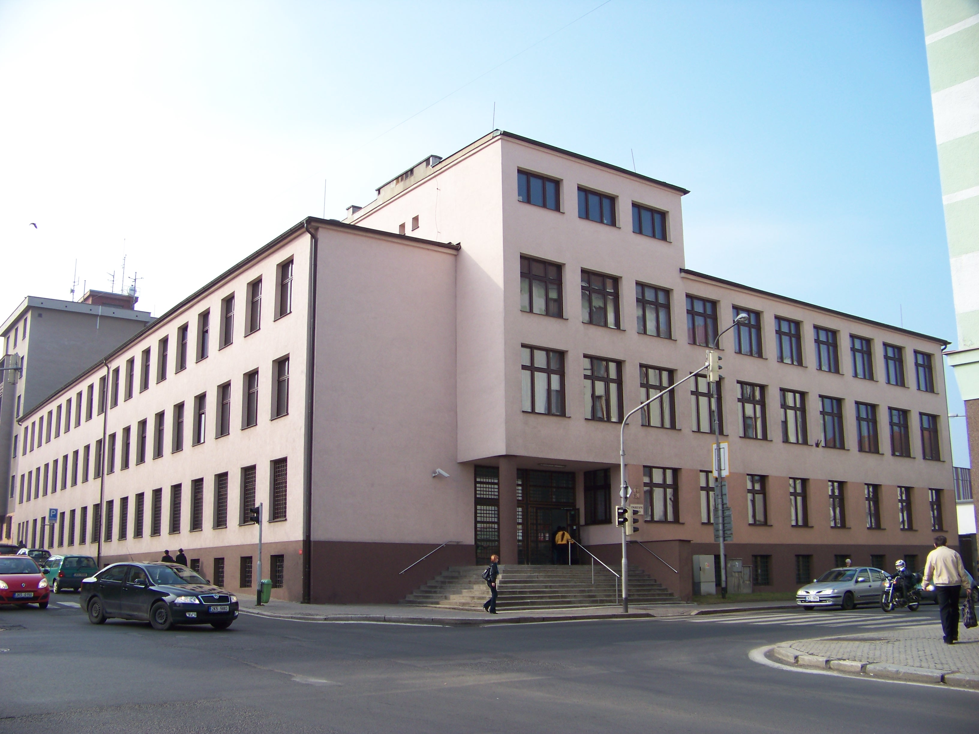 Sokolov, Sokolov District, Karlovy Vary Region, the Czech Republic. Jednoty and Karla Havlíčka Borovského street, District Court. - OpenStreetMap(Info)